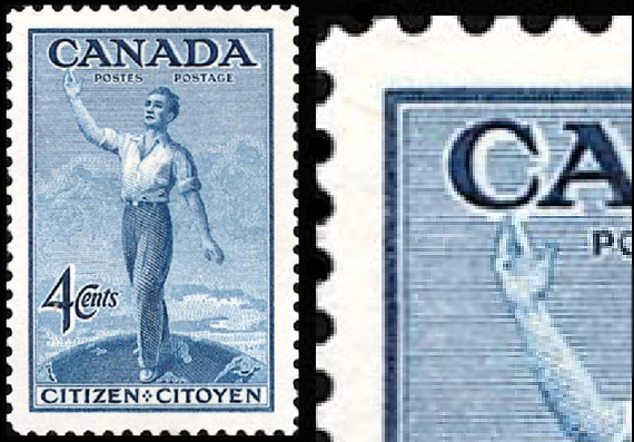 Postage stamp of Canada, commemorating the establishment of a separate Canadian citizenship (prior to 1947, Canadians were British subjects), 4 cents, 1947